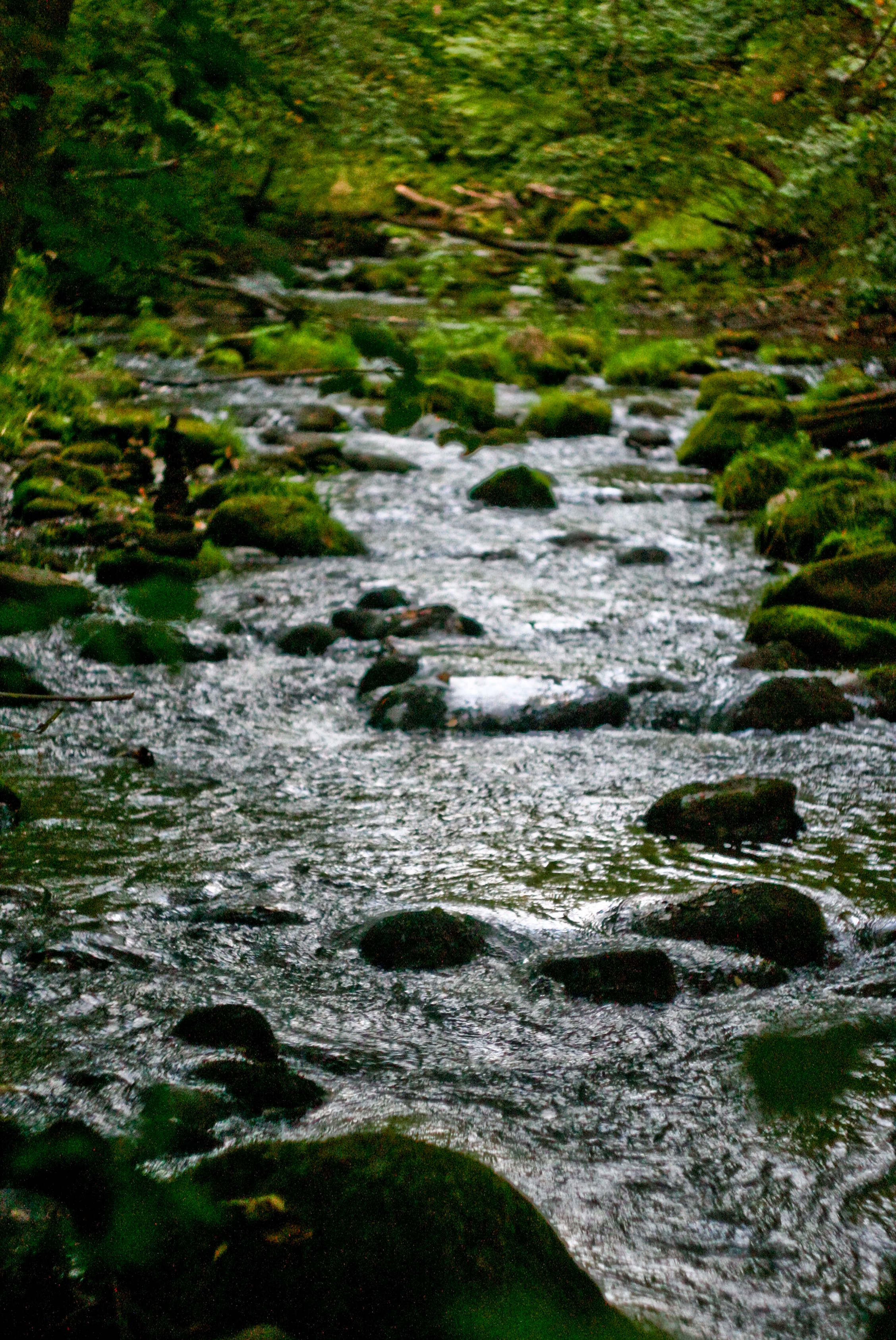 Dūkšta riverbed